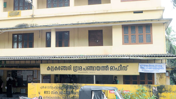 It is the headquarters of the civic administration of Kalpakanchery.